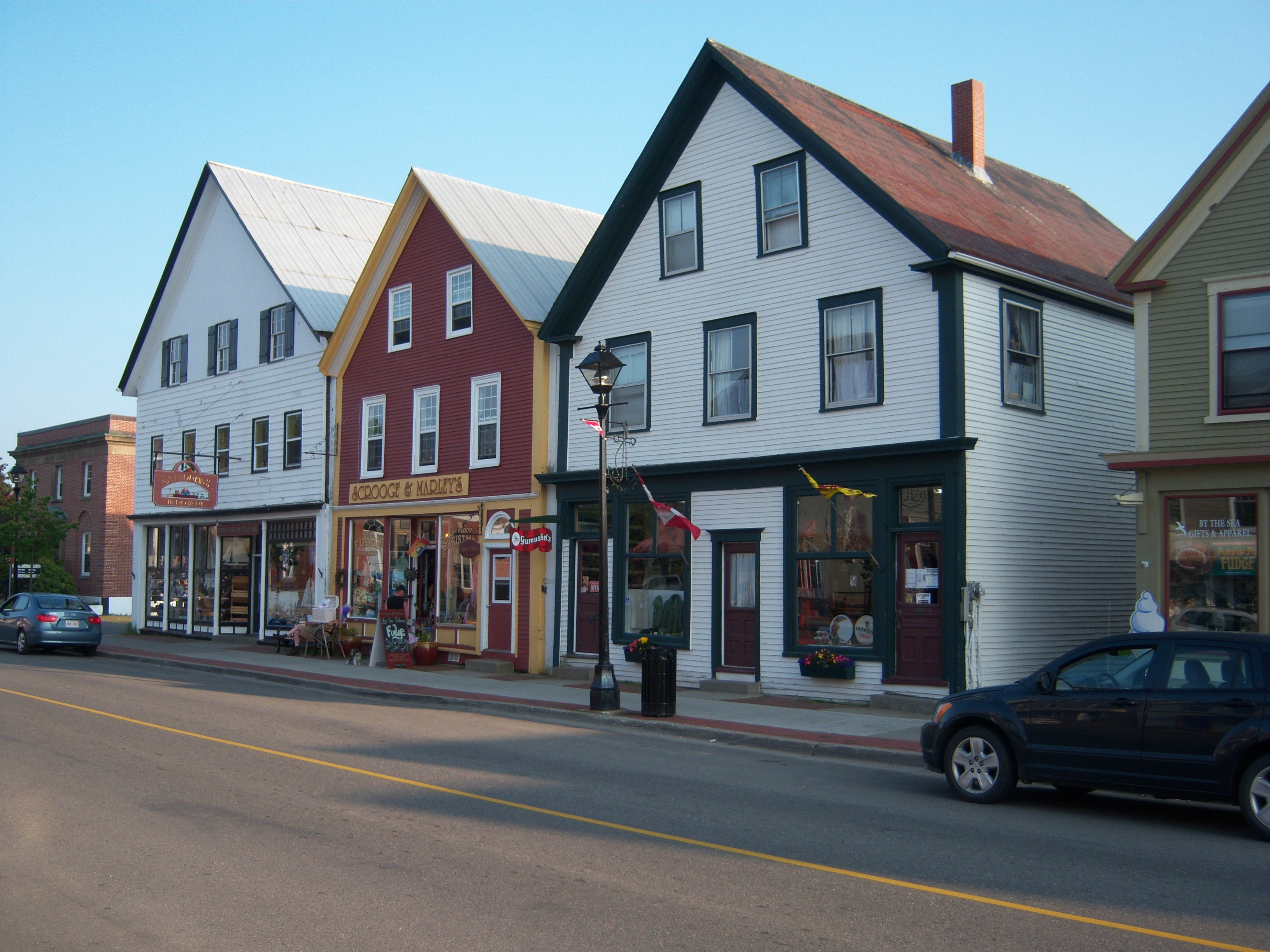 New Brunswick